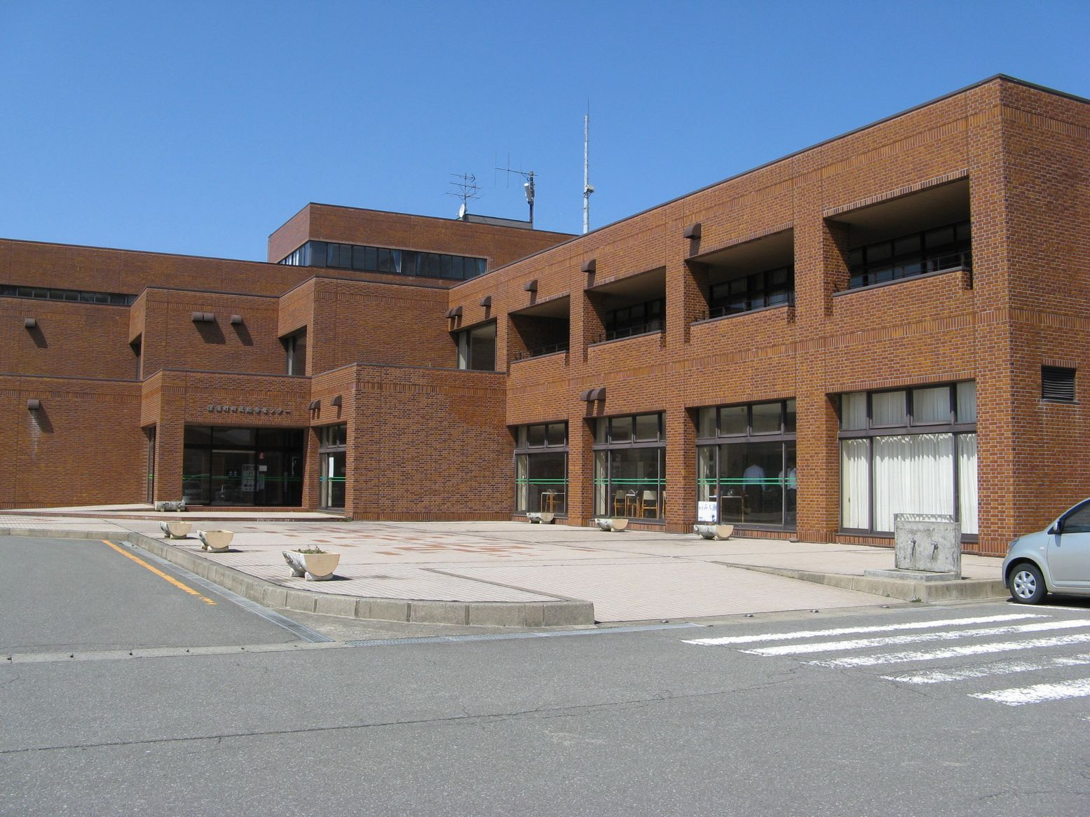 Fukaura town hall, Fukaura, Aomori prefecture, Japan